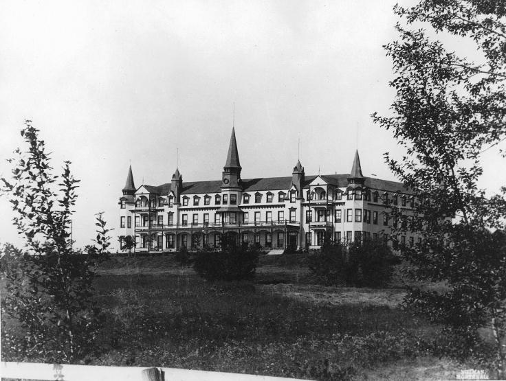 Photograph, Roberval House, Roberval, Lake St. John, QC, about 1898, Wm. Notman & Son, Silver salts on paper mounted on paper - Albumen process - 20 x 25 cm